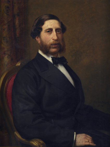 Portrait of Georg Speyer by Oskar Begas